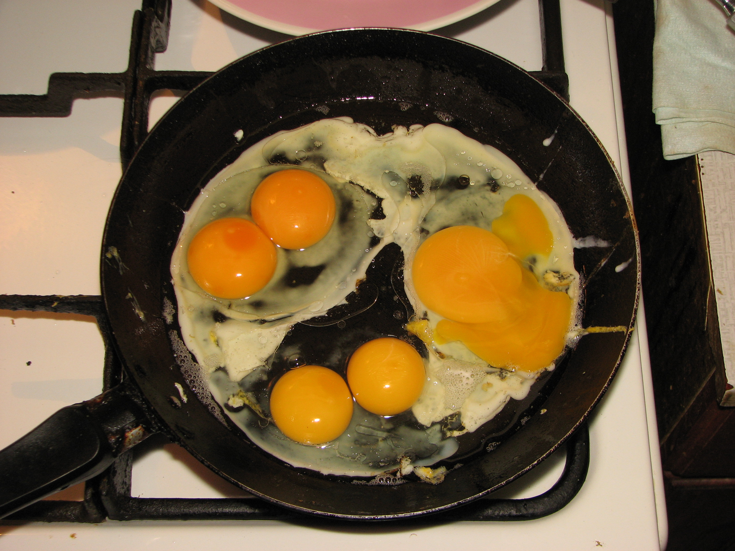 Two of the three eggs which we had for dinner had double yolk.